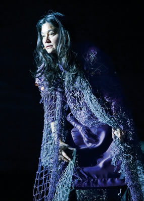 Chenoa Egawa portrays one of the ghost narrators in Artists Repertory Theatre's production of Marv Ross' The Ghosts of Celilo.